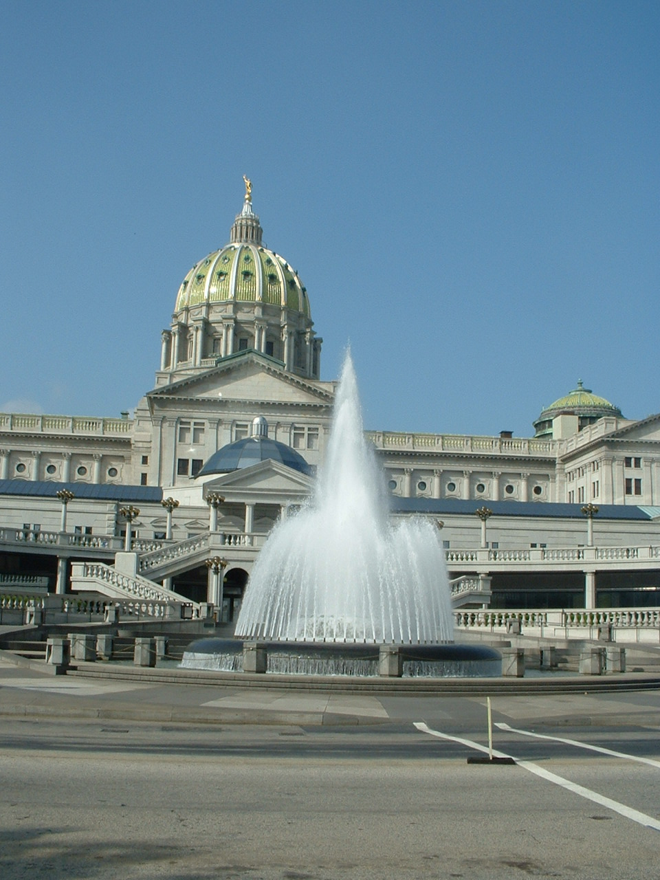 East plaza of the Pennsylvania State Capitol, 2005.